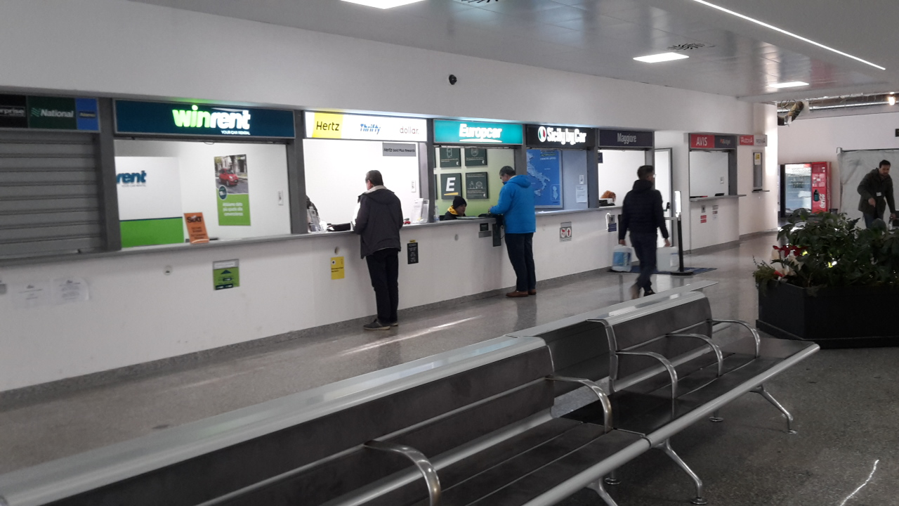 Rent a Car desks - Arrival Hall